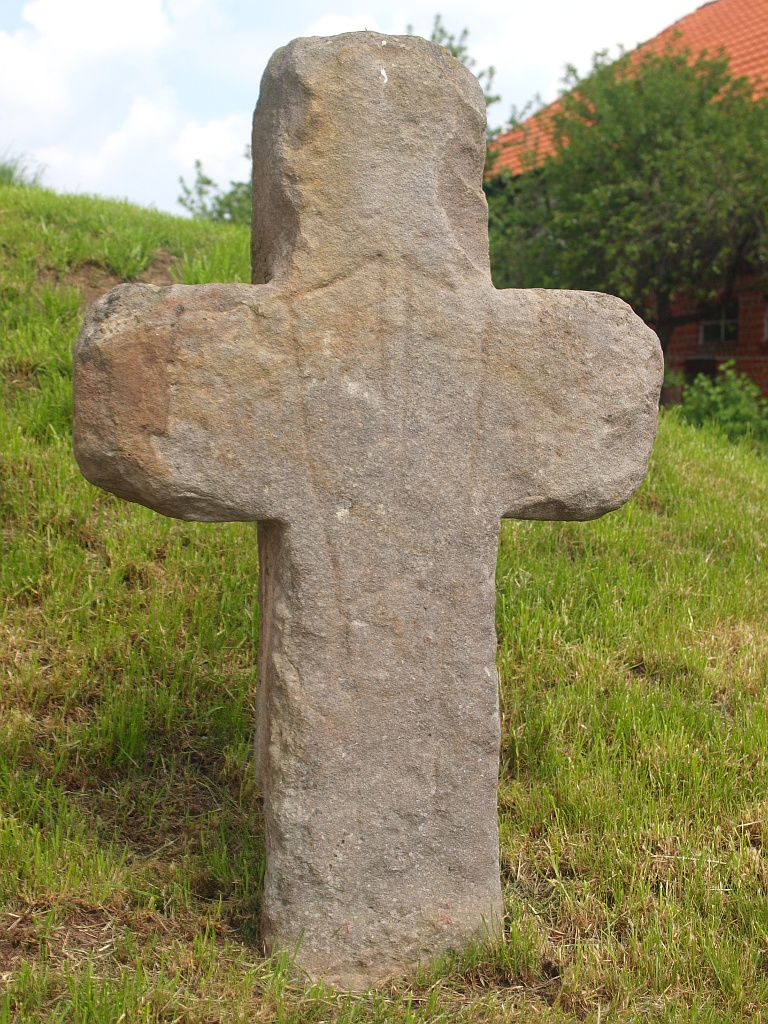 Stone crosses (Lea memorial) in Schenklengsfeld-Konrode